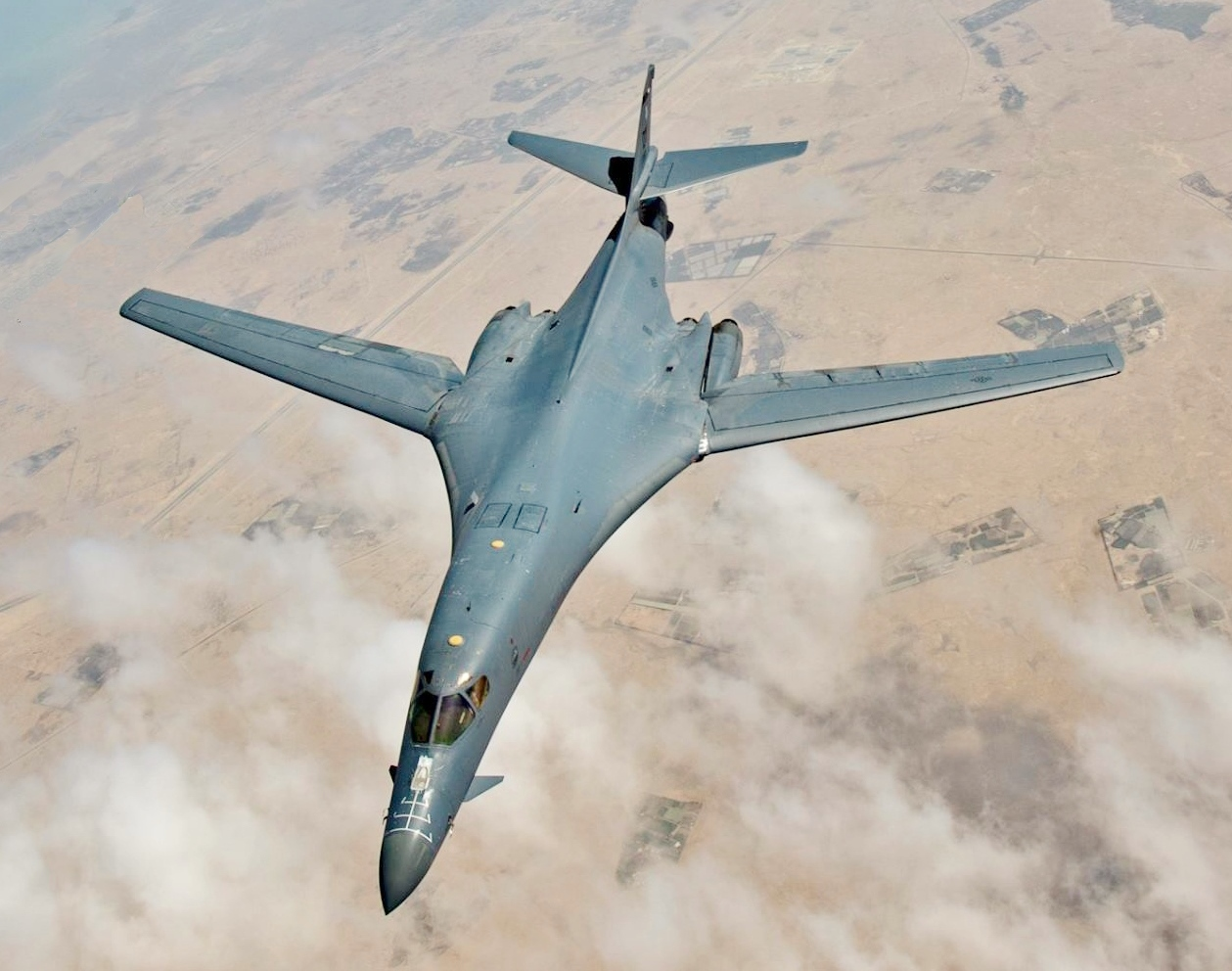 B-1B air refueling